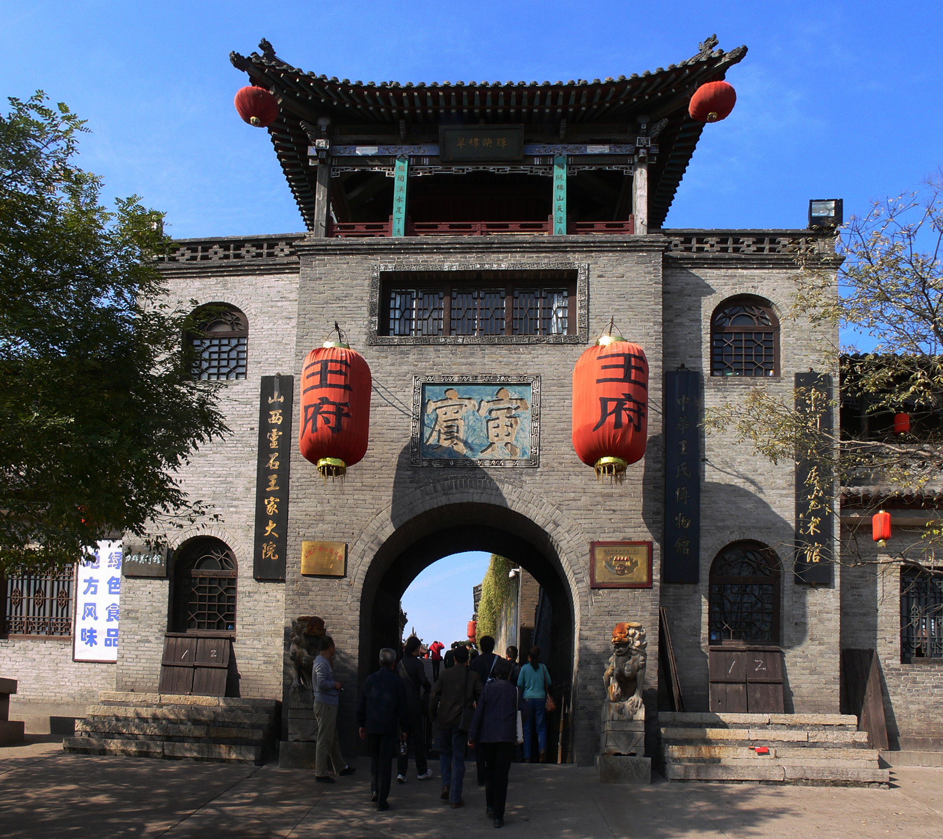 Wang Family Mansion in Lingshi county, Shanxi